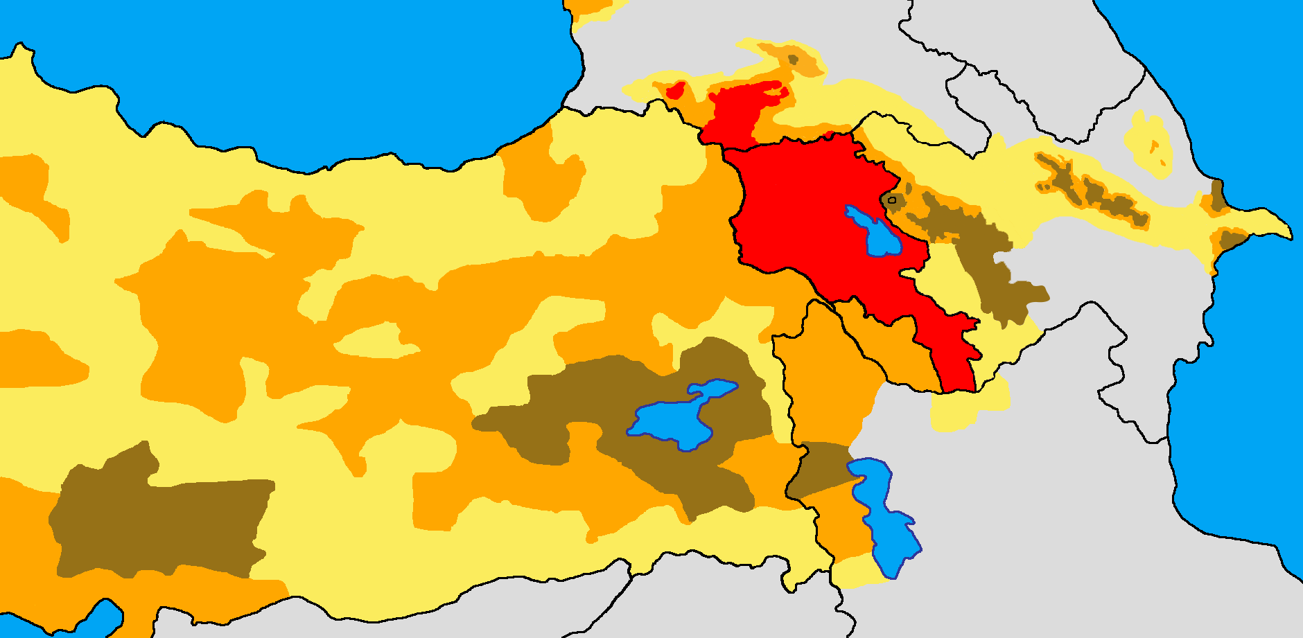 Historical and modern distribution of Armenians. Settlement areas of Armenians in early 21st century. Settlement areas of Armenians in early 20th century. More than 50% 25-50% Less than 25% Works used: (in Armenian) Yerevan State University Institute for Armenian Studies: Արևմտահայությունը XIXդ. 70-ական թթ. (էթնիկ քարտեզ) (Western Armenians in 1870s (ethnic map)) (in Russian) А. Цуциев (A. Tsutseyev), Атлас Этнополитической Истории Кавказа (Atlas of the Ethno-political history of the Caucasus), "Yevropa" Publishing House, Moscow, 2007: 1886–1890: Этнолингвистическая карта Кавказа (1886-1890: Ethno-linguistic map of the Caucasus) European Centre for Minority Issues, Ethnic Map of Georgia; January 2009 (in Russian) Армяне накануне геноцида. Нач. XX века. (Armenians on the eve of genocide. Early 20th century.) (in Russian) Карапетян Сергей Арменакович Арцах, Гардман, Нахиджеван - триединая формула территориальной целостности Восточной Армении Ереван 2008.